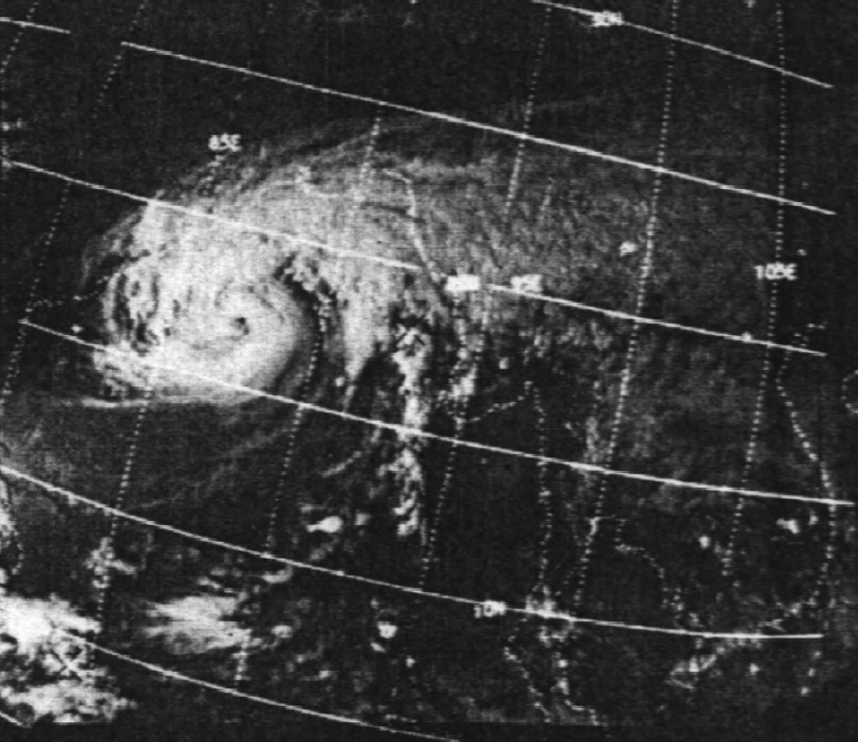 Image of the Bhola cyclone taken on November 11, 1970.